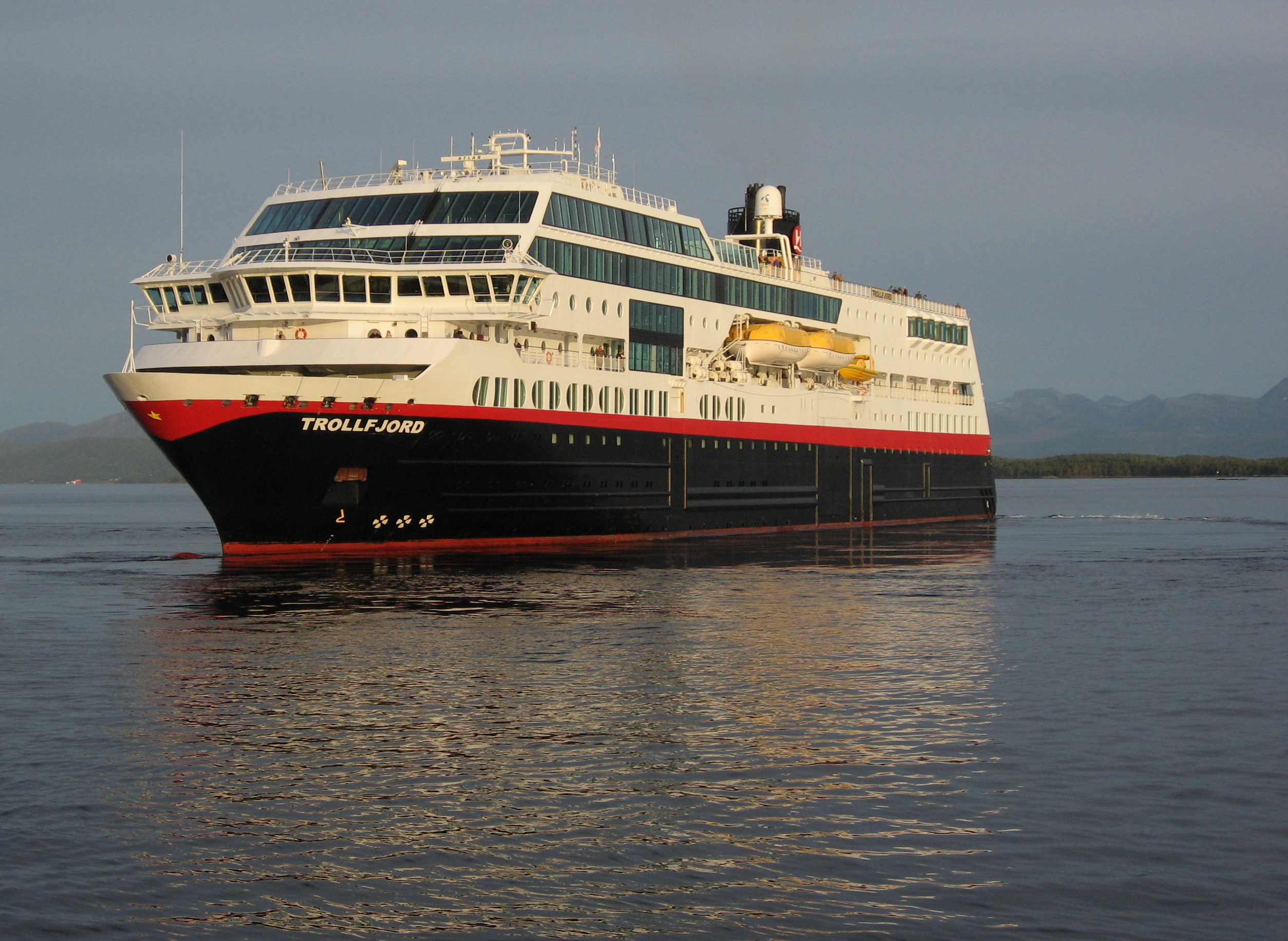 Norwegian coastal express ship MS Trollfjord in Molde